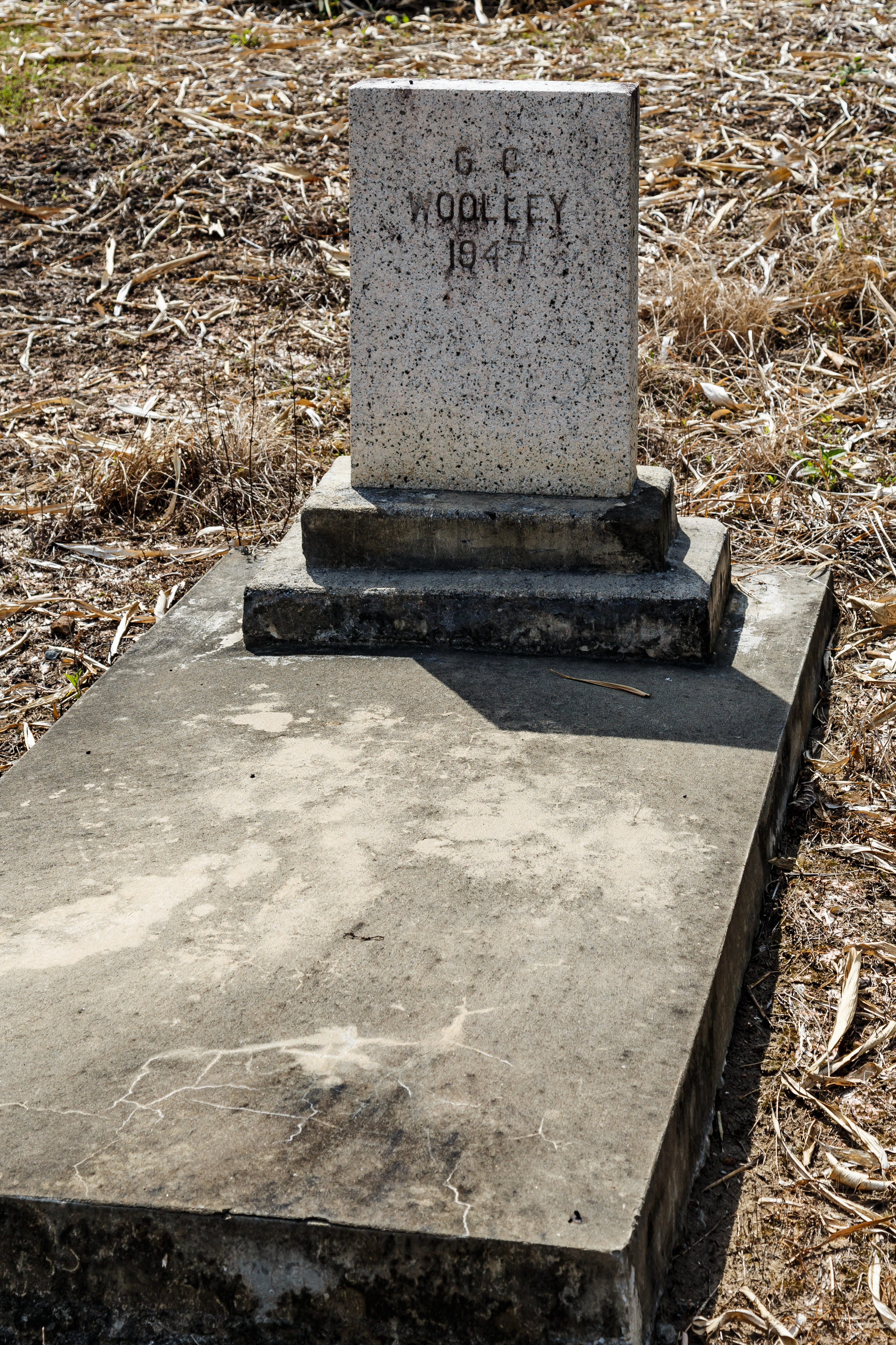 Kota Kinabalu, Sabah: The tombstone of George Cathcart Woolley at the old anglican cemetery in Kota Kinabalu (formerly "Jesselton")